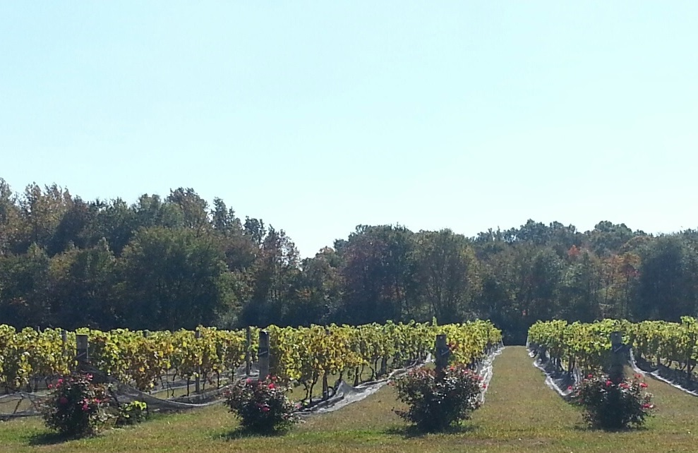 A picture of the vineyard at Coda Rossa Winery in Franklinville, NJ. The winery has 13 acres of land, of which 10 acres is cultivated with grapes.